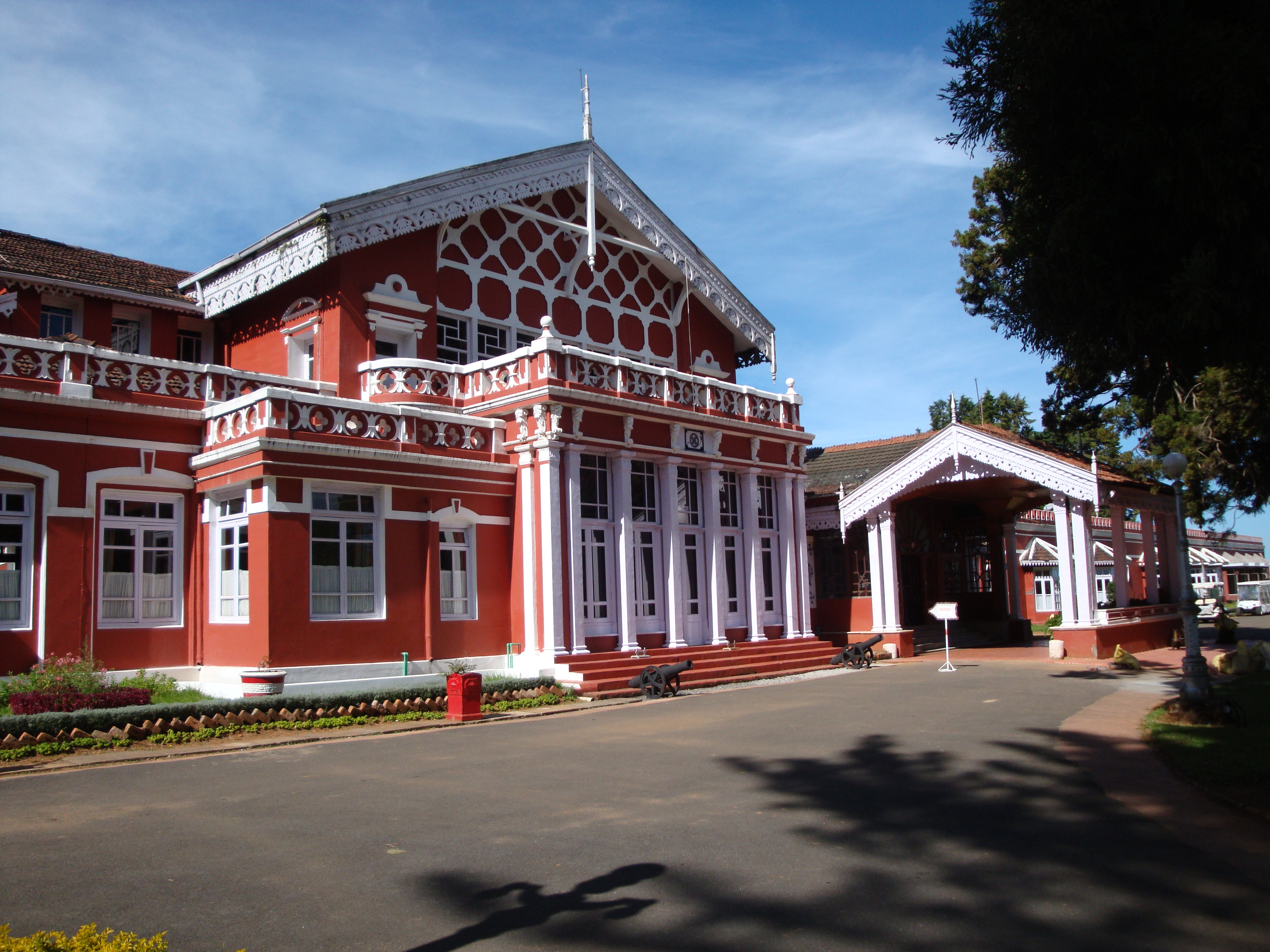 Photo of the Fernhills Palace Hotel, Ooty, Tamil Nadu, India.